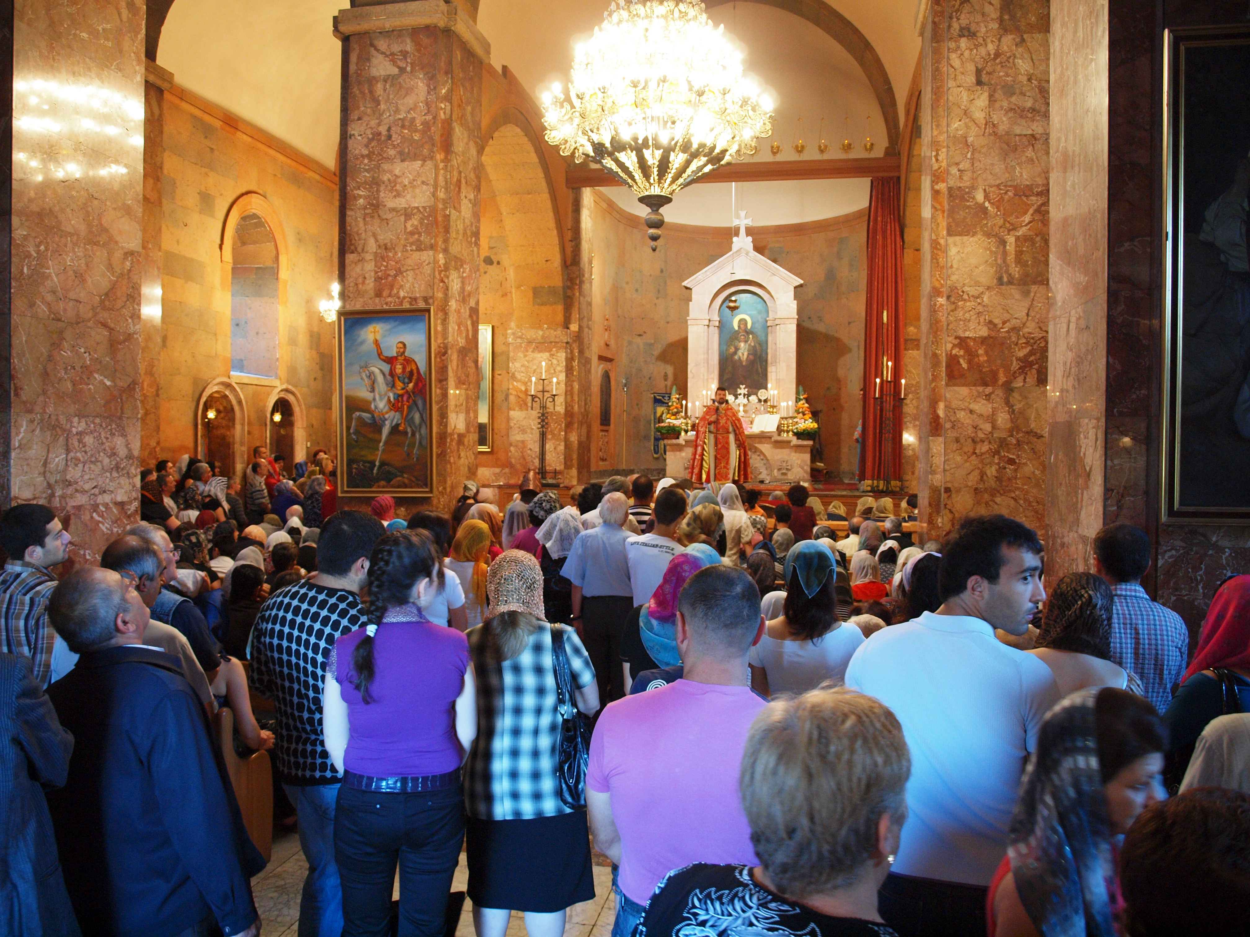 Church service, Yerevan